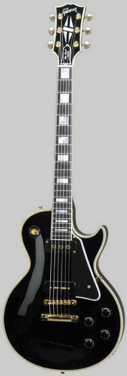 guitar Gibson Les Paul 54 Custom